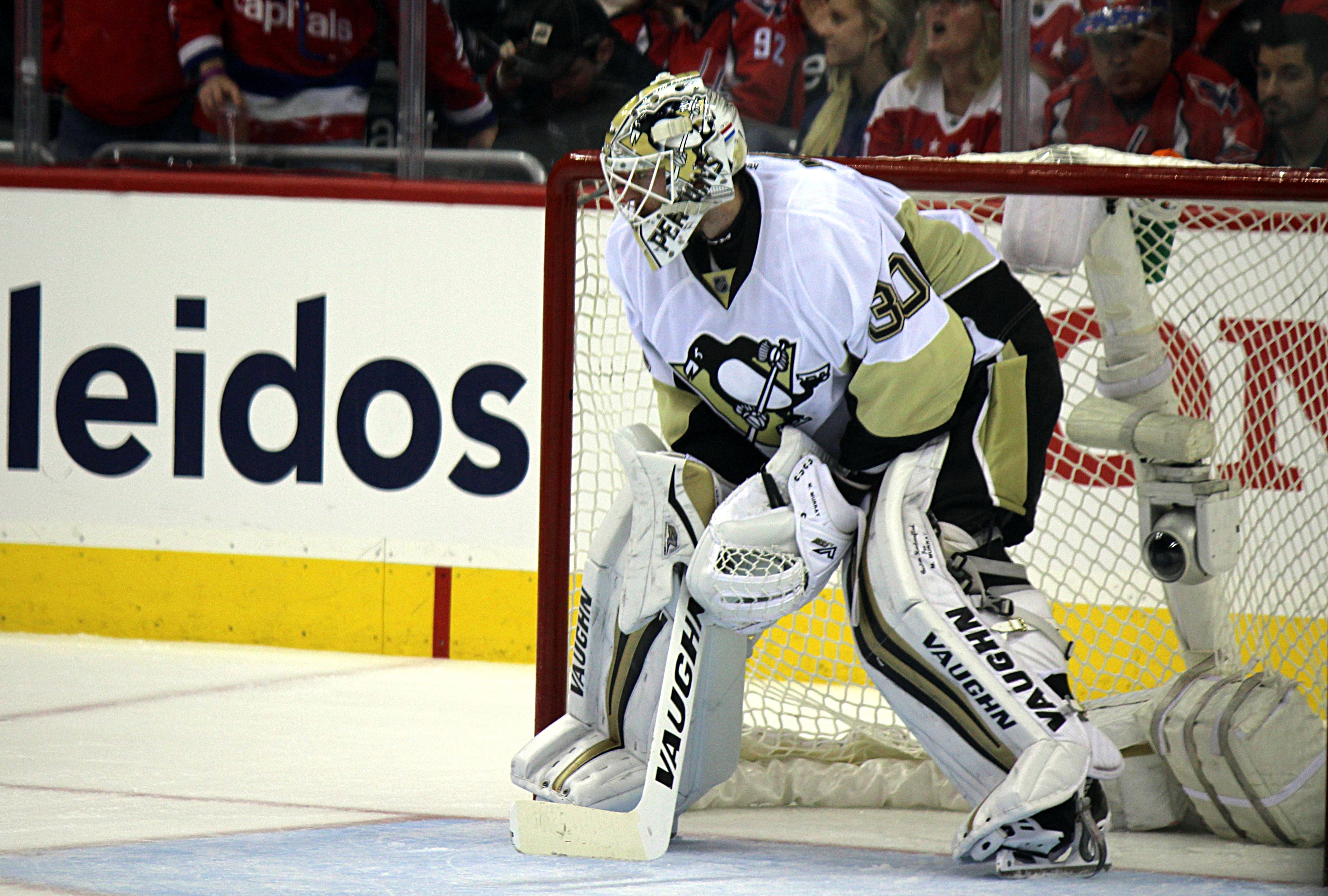 Pittsburgh Penguins goaltender Matt Murray during a playoff game against the Washington Capitals, Thursday, April 28, 2016 at Verizon Center in Washington, D.C.